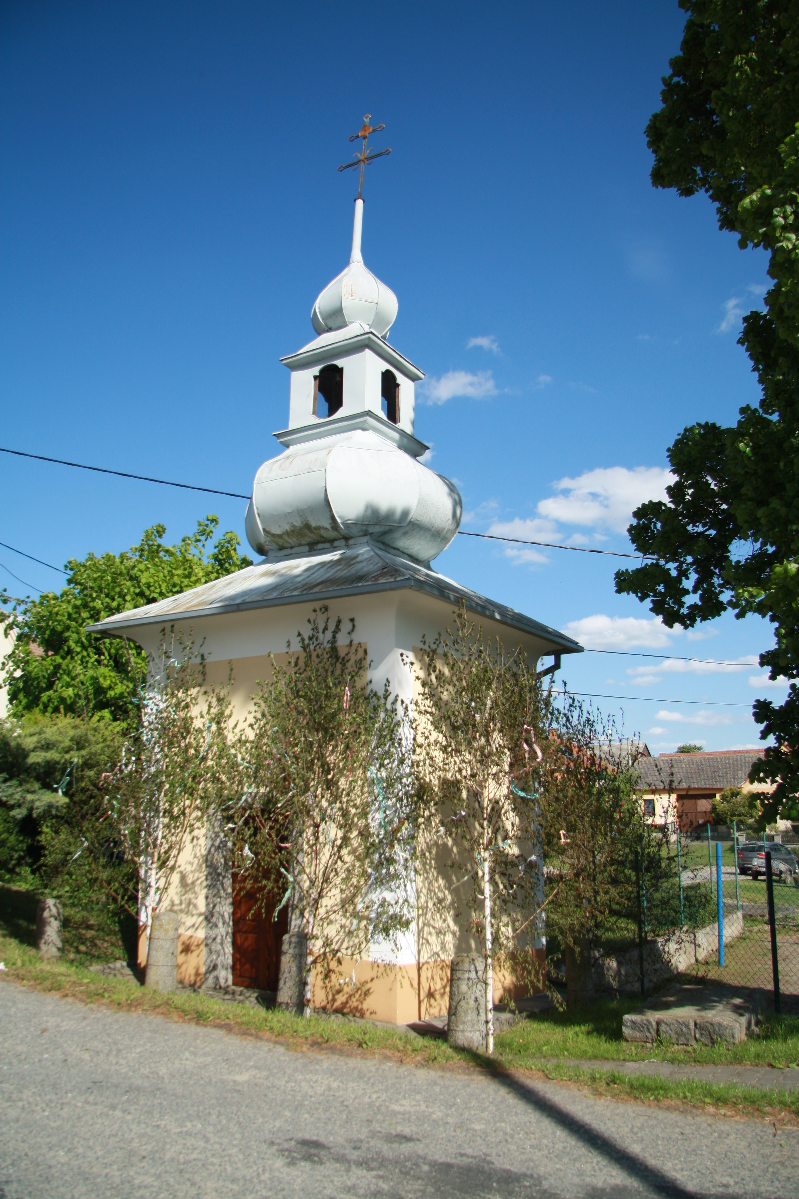 Chapel in Studnice, Třebíč District.